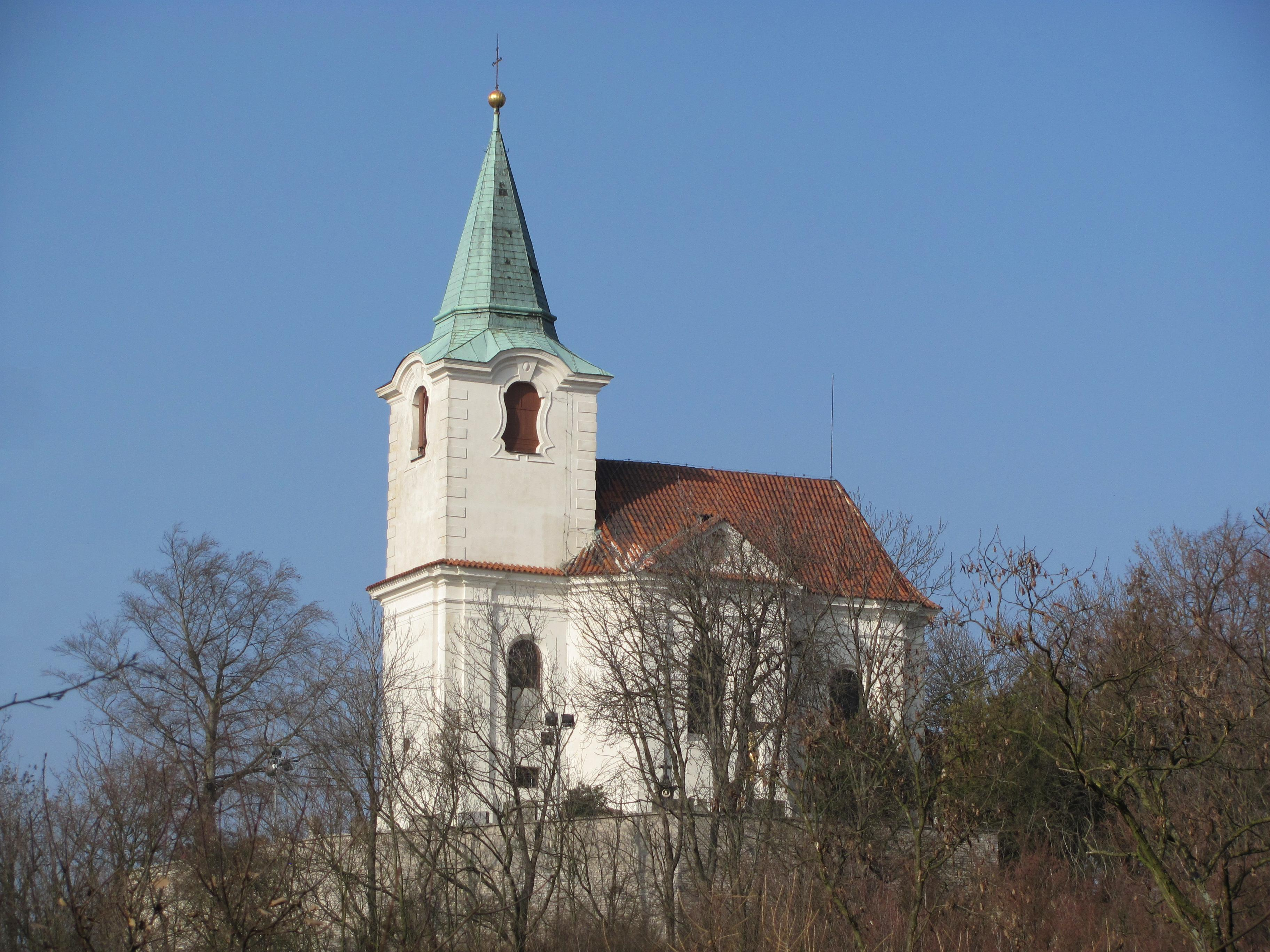 Church of Saint Matthias, Prague-Dejvice, the Czech Republic.